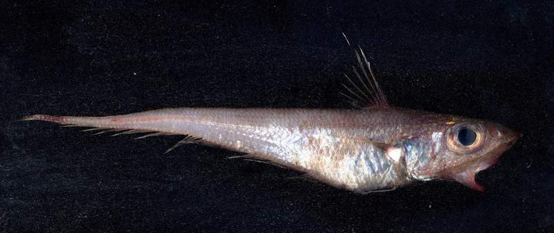 Coelorinchus caelorhincus photographed by Pierluigi Angioi